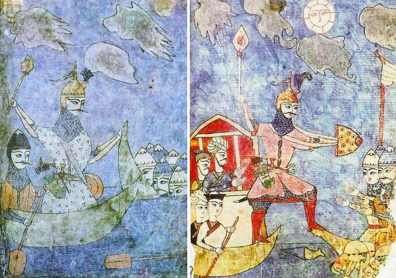 Naval battle scenes from Mamuka Tavakarashvili's illustrated manuscript of Shota Rustaveli's poem. 17th century.